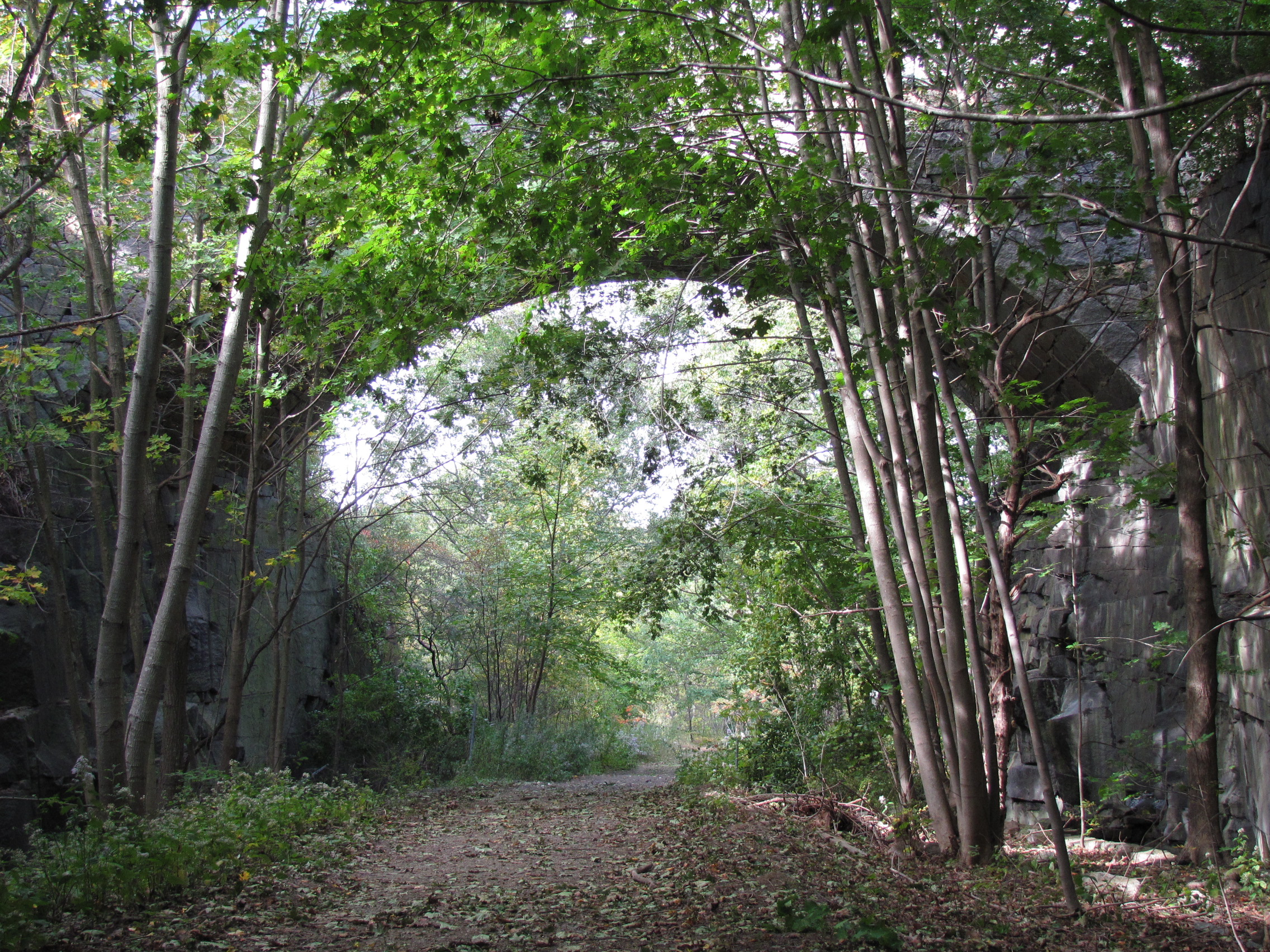 Granite Keystone Bridge, Rockport Massachusetts